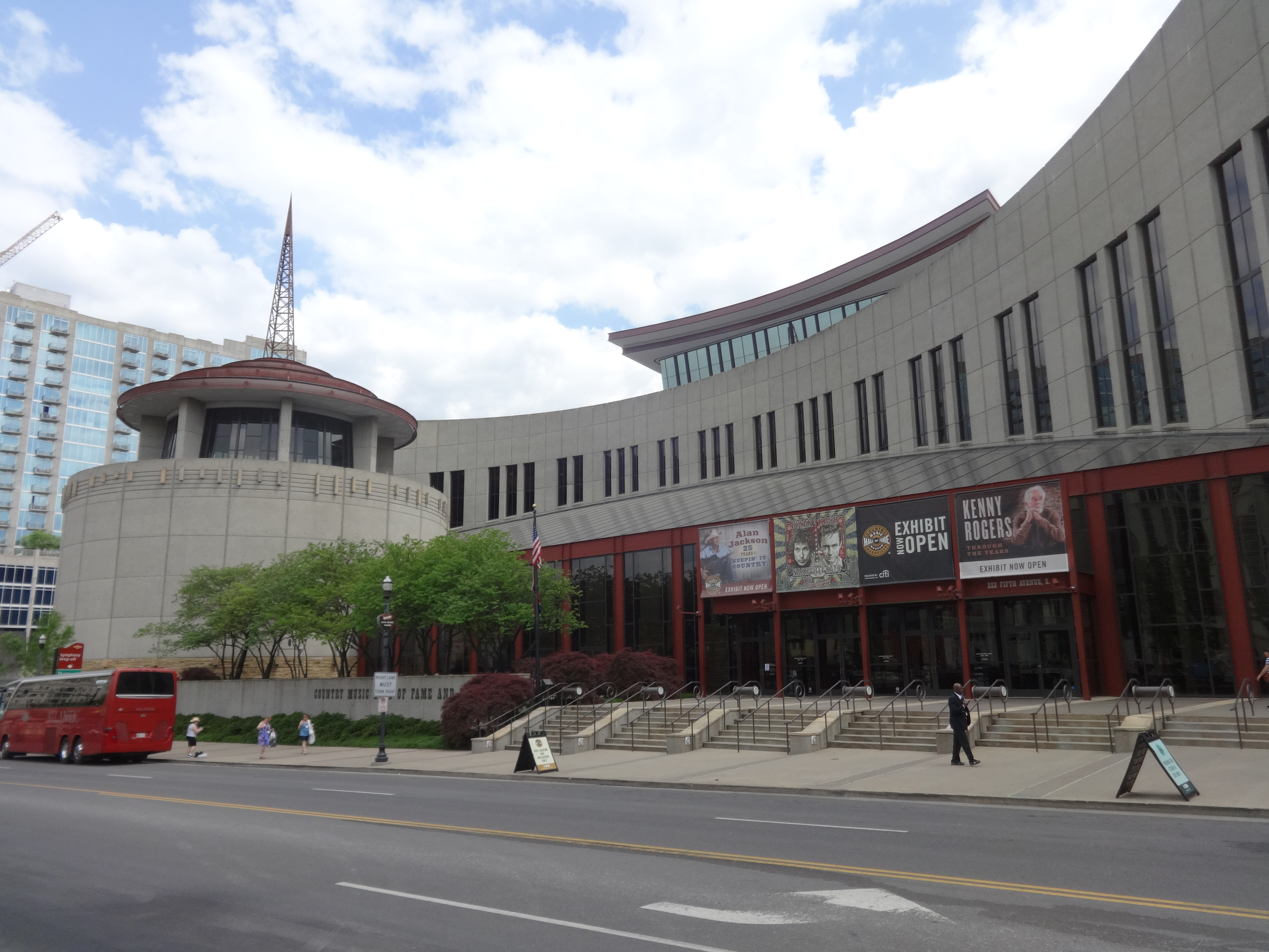 Country Music Hall of Fame, 222 5th Ave S, Nashville, Davidson County, Tennessee